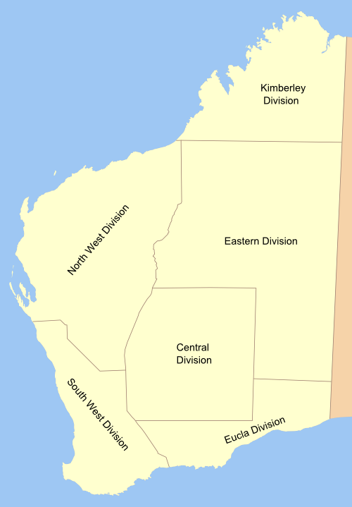 Map of land divisions in Western Australia, as shown on old public domain 1909 map at the National Library